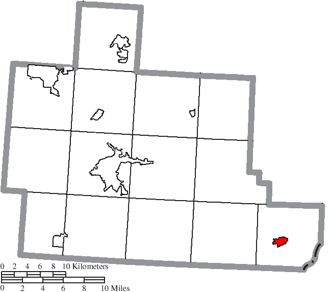 Map of the municipal and township boundaries of Athens County, Ohio, United States, as of the 2000 census, with the location of the village of Coolville highlighted. Township borders are shown only in unincorporated areas in order to differentiate incorporated and unincorporated areas more clearly.